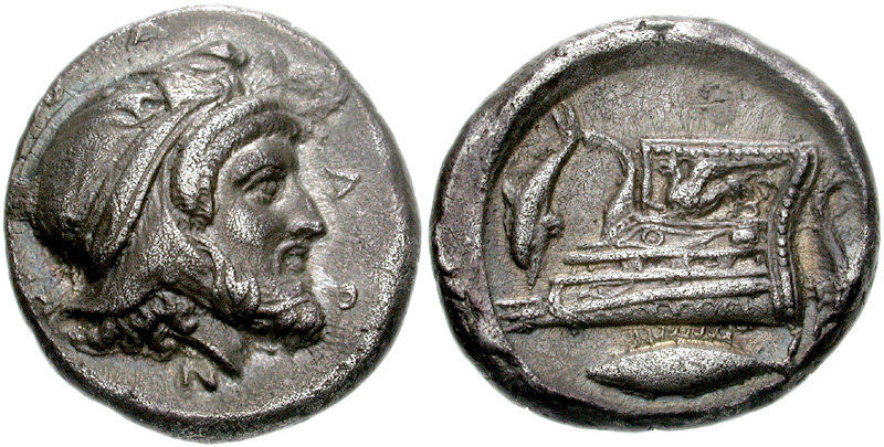 MYSIA, Kyzikos. Pharnabazos. Persian military commander, circa 398-396/5 BC. AR Tetradrachm (22mm, 14.67 g, 2h). FAR-N-[A]-BA, head of Pharnabazos right, weaing satrapal cap tied below his chin, and diadem / Ornate ship’s prow left, decorated with a griffin and prophylactic eye; before and aft, two dolphins downward; below, tunny left. Maffre 5 (D5/R4) = Bozdek 7 (this coin); Winzer 9.3; SNG France 395; SNG von Aulock 1216; BMC 12; Franke & Hirmer 718. Good VF, toned, slightly granular surface. Very rare, Maffre located thirteen extant examples, eight of which are in museum collections.